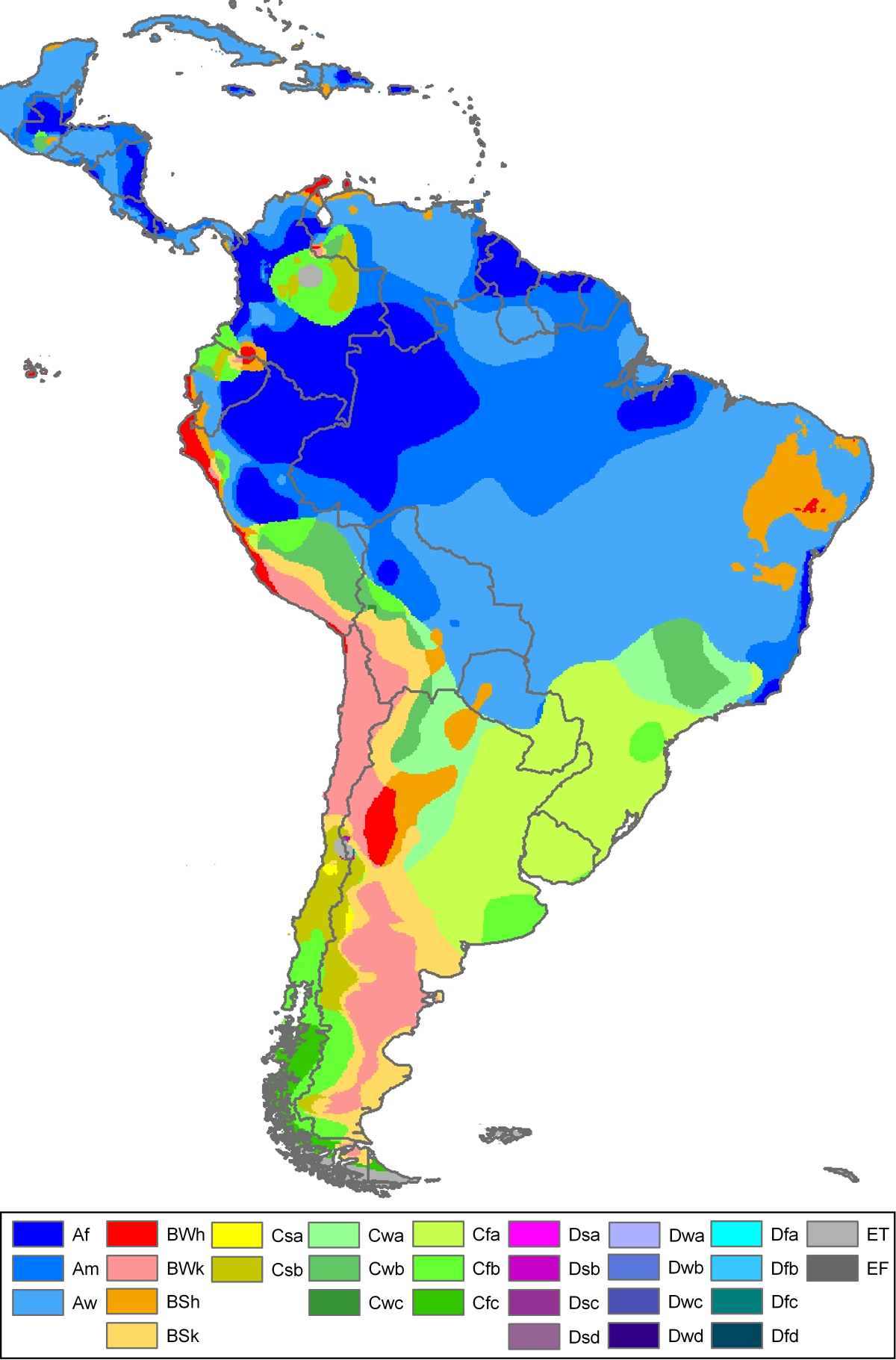 Climate map of South-America, including Central-America and the Caribbean (from the "Updated world map of the Köppen-Geiger climate classification").